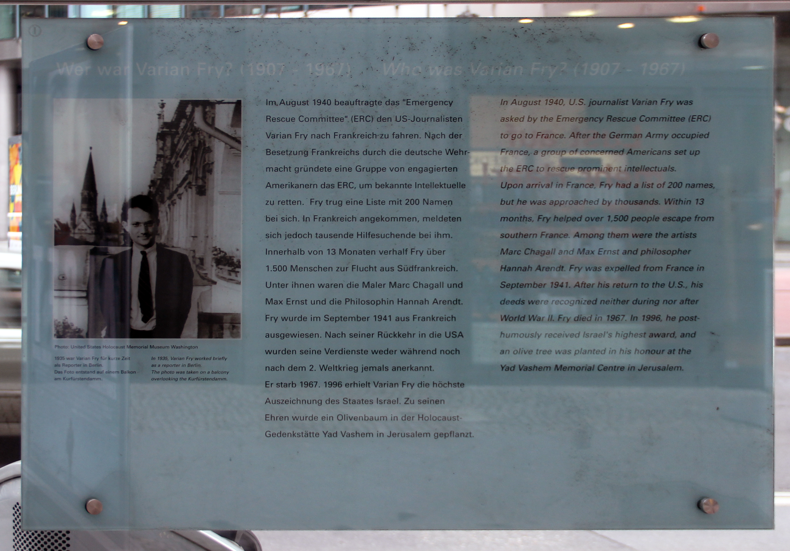 Memorial plaque, Varian Fry, Potsdamer Straße 1, Berlin-Tiergarten, Germany